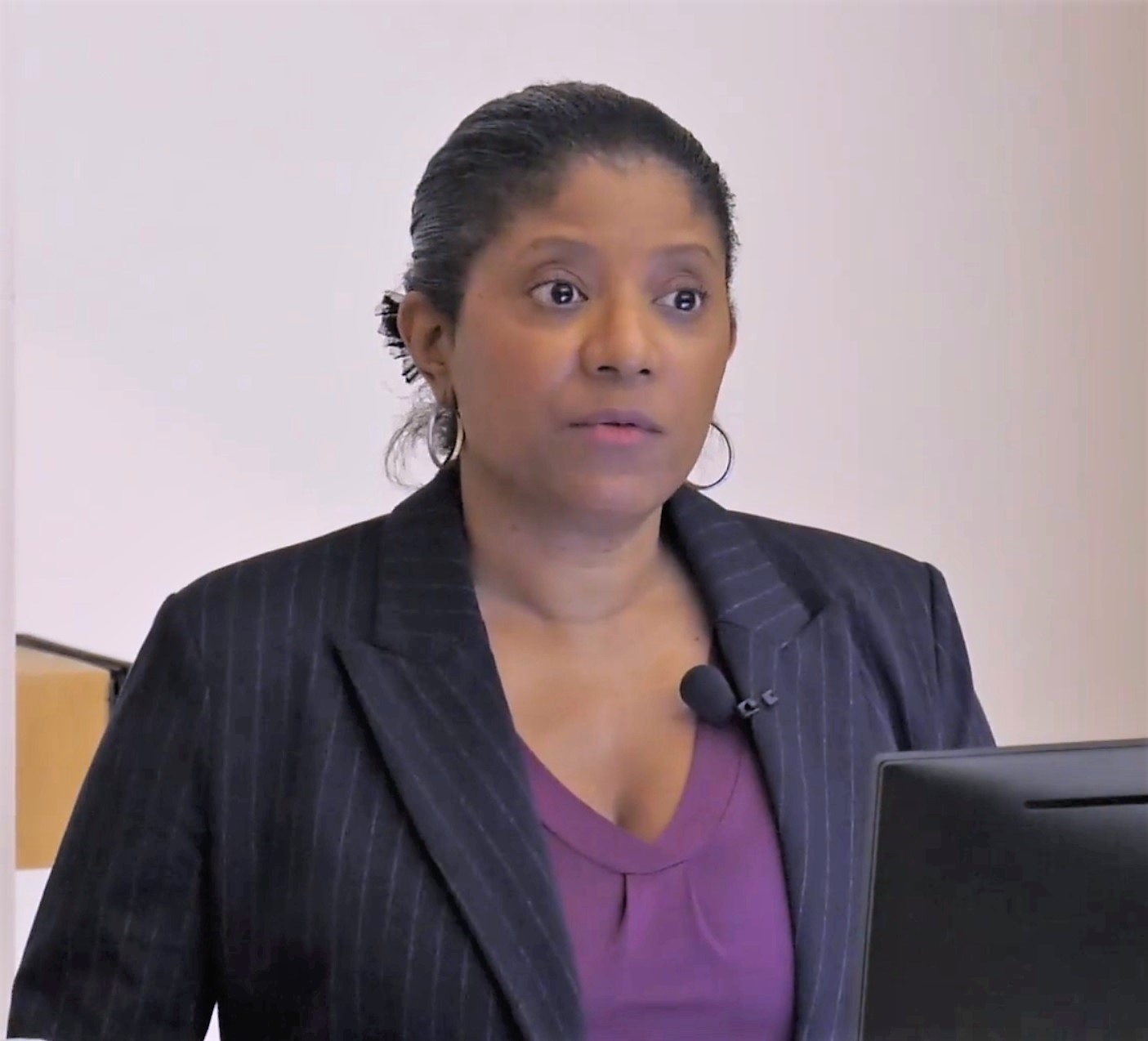 Dr. Ingrid Waldron, Faculty of Health, Dalhousie University, Halifax NS and the ENRICH Project (Environmental Noxiousness, Racial Inequities and Community Health). Ingrid Waldron is a sociologist, and Associate Professor in the School of Nursing at Dalhousie University and the Director of the Environmental Noxiousness, Racial Inequities & Community Health Project (The ENRICH Project). Her research and teaching focus on environmental racism and environmental justice; the impacts of racism and other forms of discrimination on health and mental health in Black, Indigenous, and immigrant communities; the lived experiences and treatment preferences of Black, Indigenous and other culturally diverse adults living with symptoms of depression and anxiety; and intimate partner violence experienced by racially and culturally diverse women in mid-life. In 2018, Dr. Waldron was awarded the President’s Excellence Research Award – Research Impact at Dalhousie University. Her first book There’s Something in the Water: Environmental Racism in Indigenous and Black Communities was released in April 2018 by Fernwood Publishing.